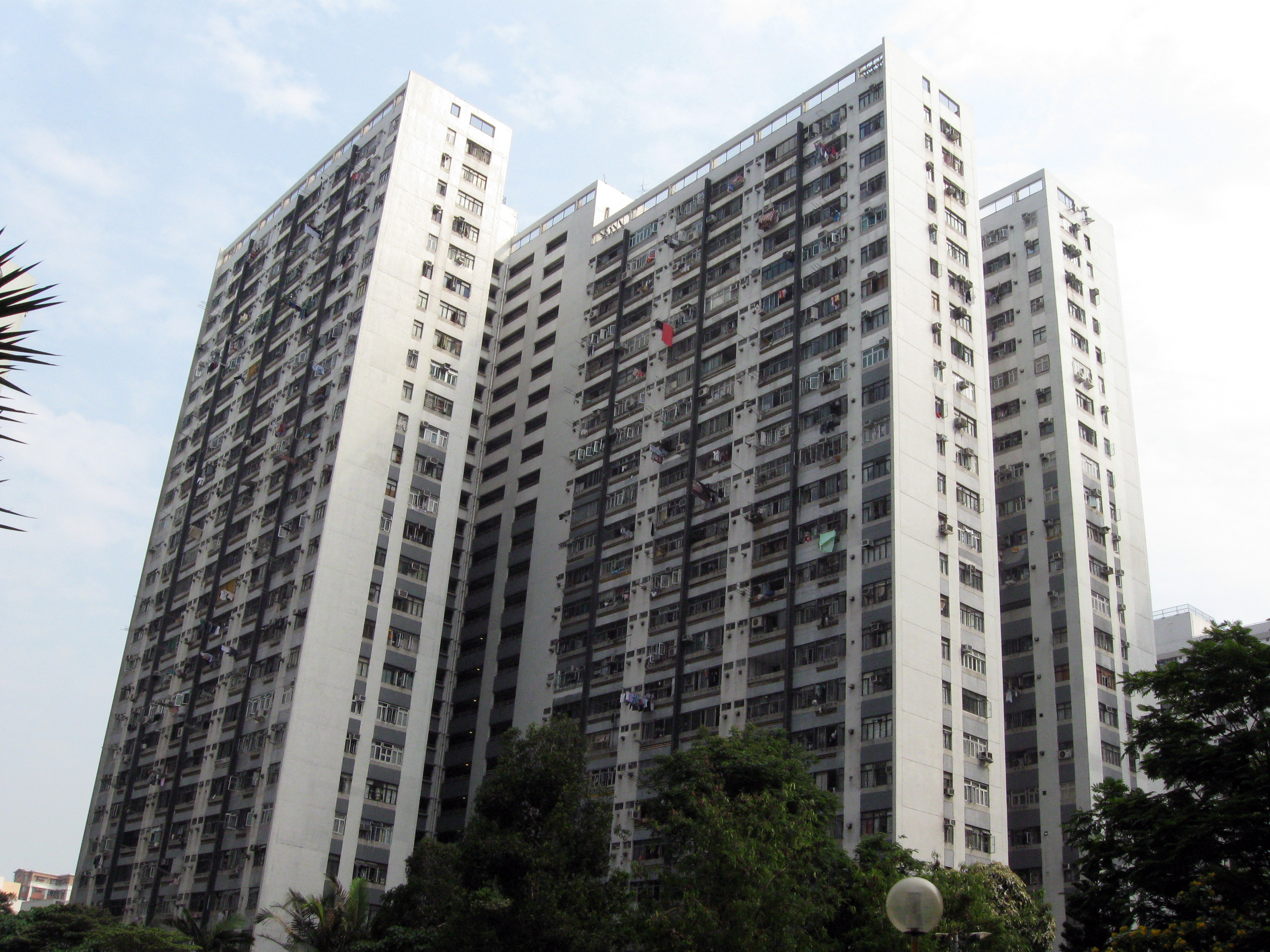 Yan Oi House and Chung Hau House, Lei Cheng Uk Estate, Sham Shui Po, Kowloon, Hong Kong